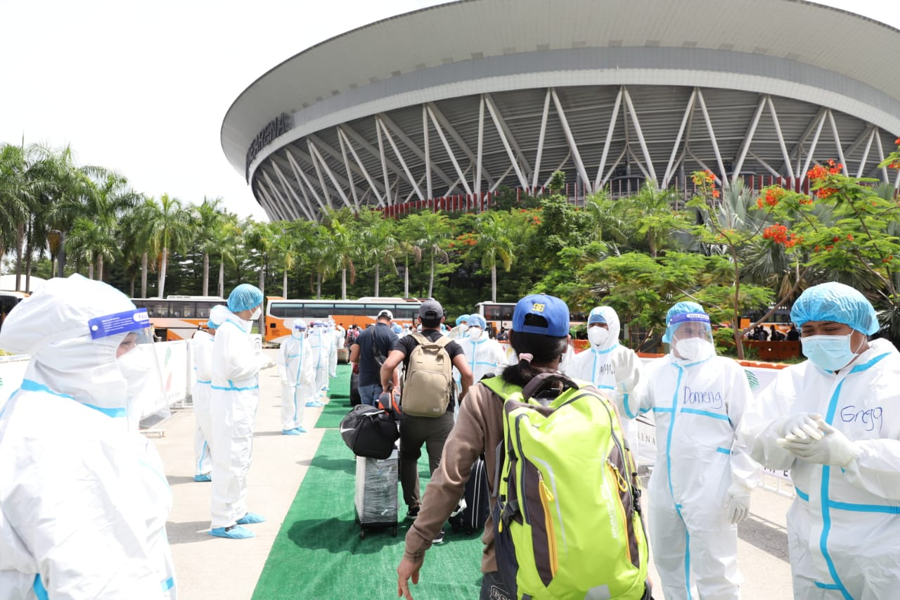 A total of 151 overseas Filipino workers (OFWs) were sent home Saturday, June 20, after recovering from COVID-19 at the We Heal As One Center-Philippine Arena. (Photo from National Task Force against COVID-19)